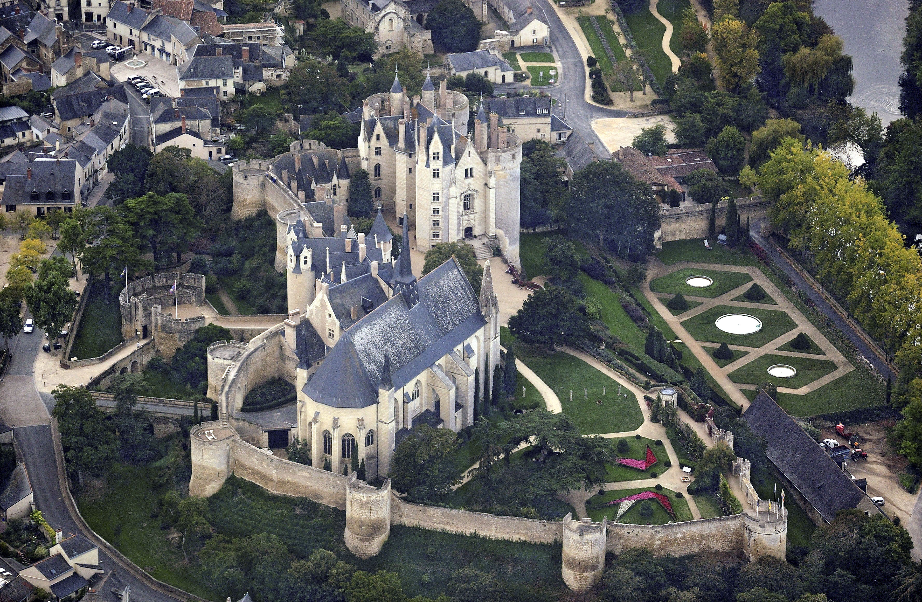 Château de Montreuil-Bellay, Maine-et-Loire, Pays de la Loire, France. Photo retouched by Tango7174: increase brightness, remove green tone, add sharpening. The original version can be seen here.